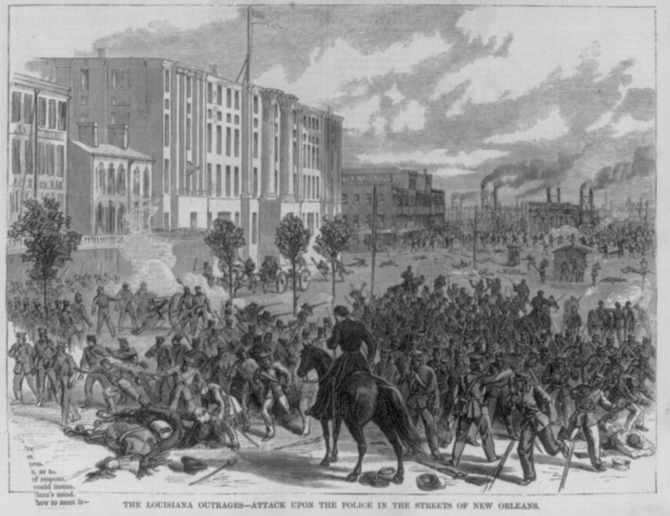 New Orleans 1874, during post-Civil War Reconstruction period. Clash between the (racially integrated) Police and the (segregationist) White League on Canal Street